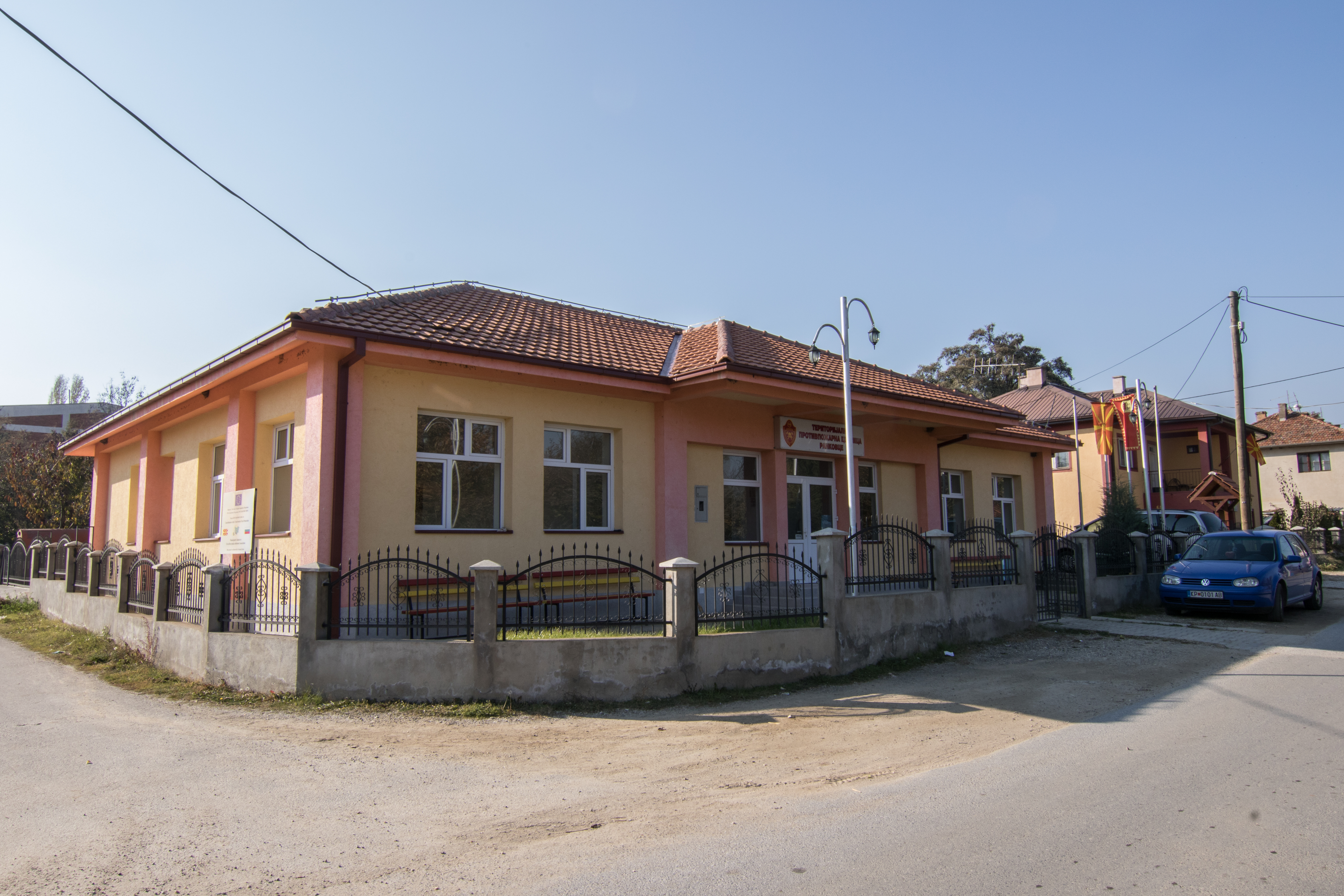 View of the building of the firefighters in the village Rankovce